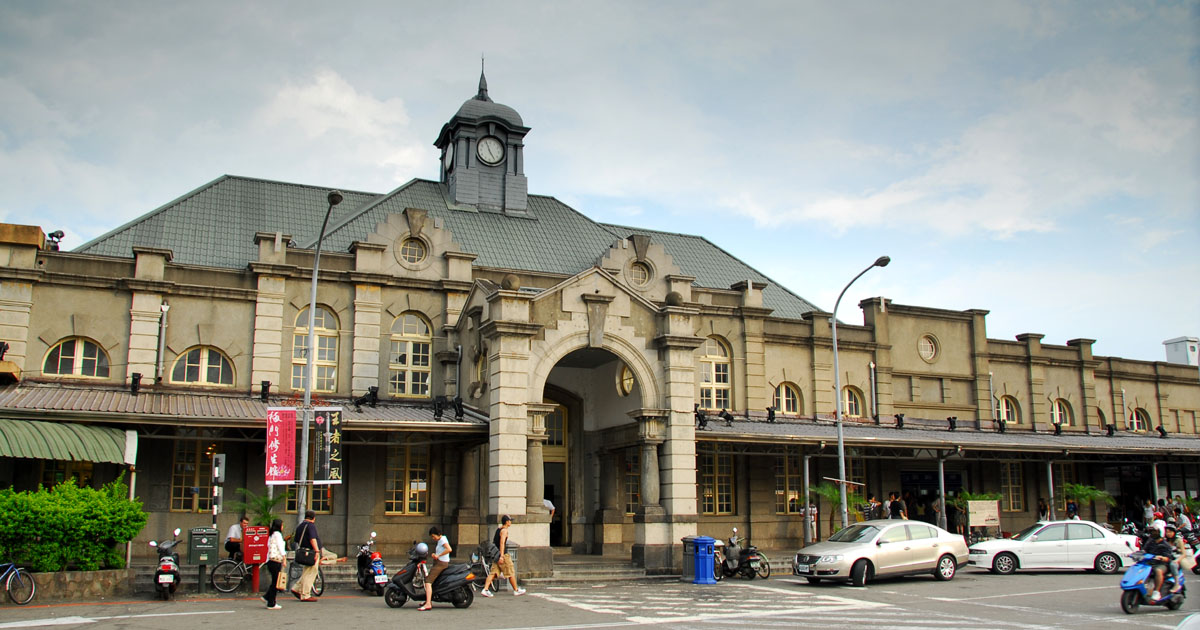 HsinChu Station is a major train station on Taiwan's Western Main Rail Line. The station is the main station of HsinChu City. The main building of this station is one of the oldest train stations along Taiwan's Western Main Line, its Baroque style main structure was built in 1913 during the Japan Occupation Era, and has been designated as a National Heritage Site.